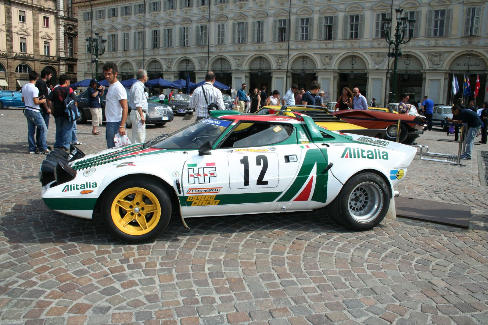 Lancia Stratos HF at the Lancia centenary celebrations in Turin in 2006.